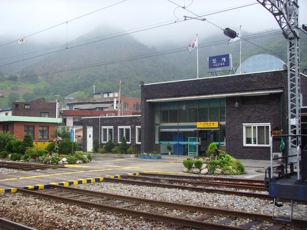 Dogye Station (Yeongdong Line), (Dogye-eup, Samcheok-si, Gangwon-do, South Korea)